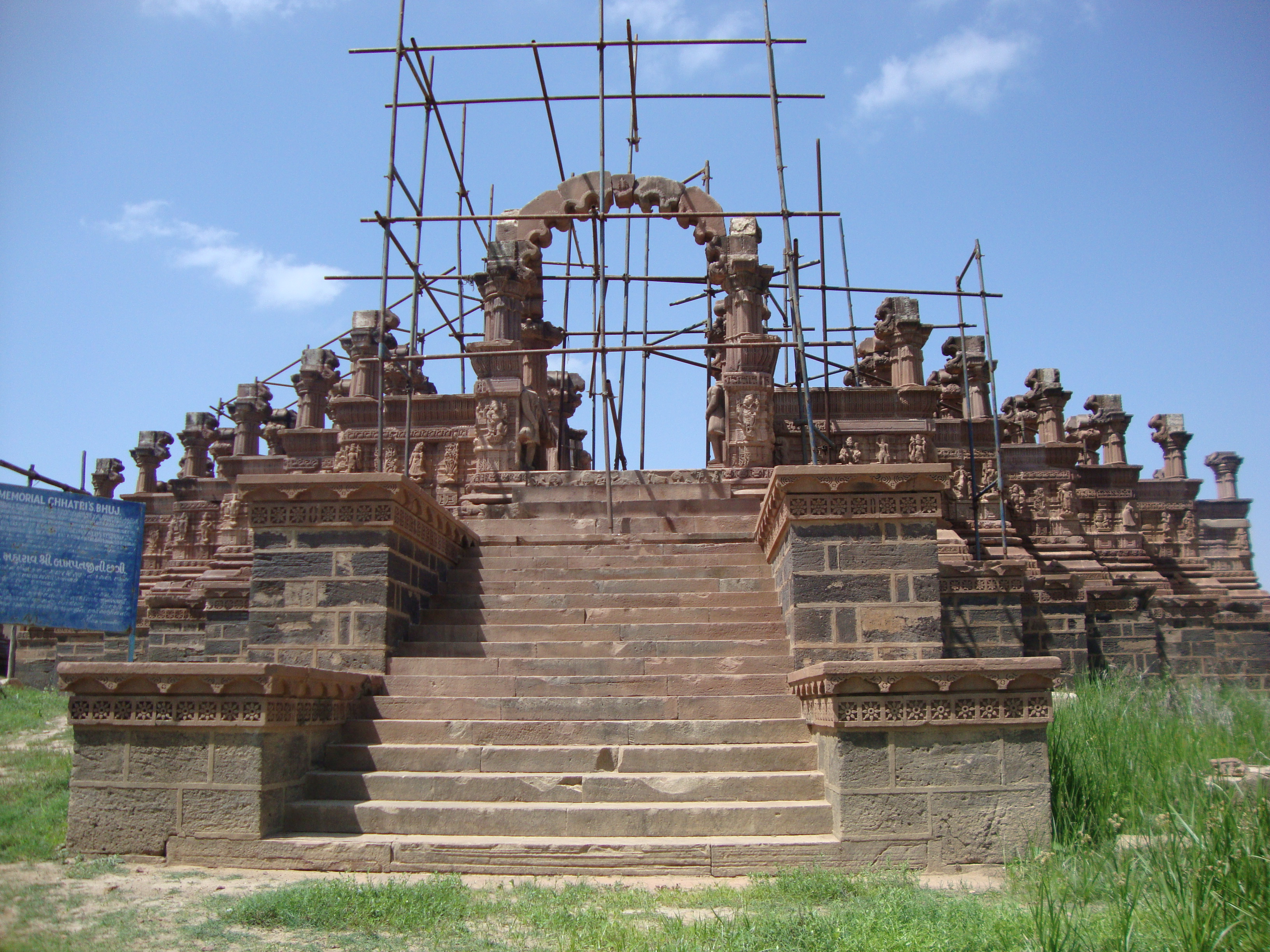 Rao Lakhaji Chhatri - being renovated